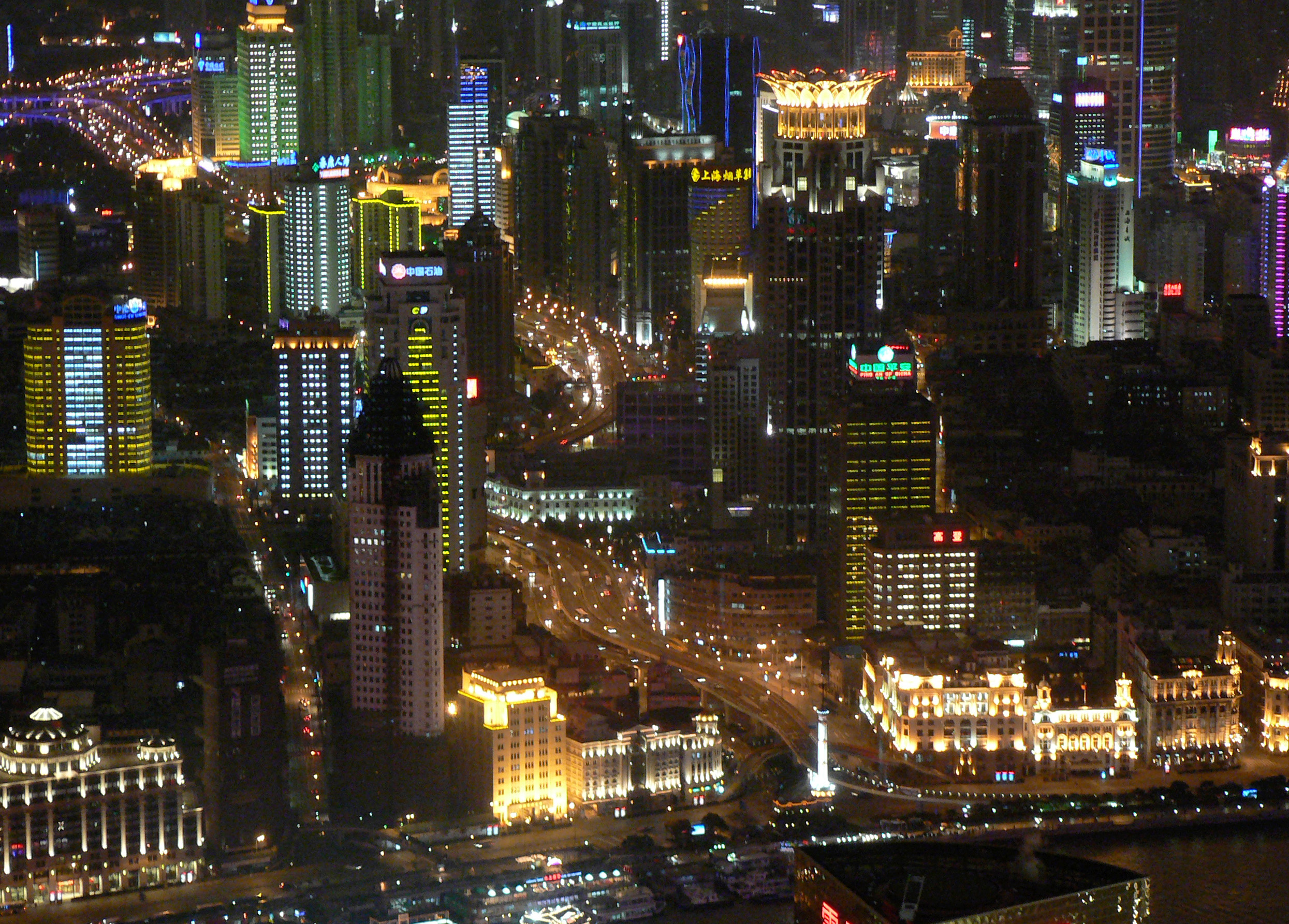 View from Jin Mao Tower. Best viewed large.